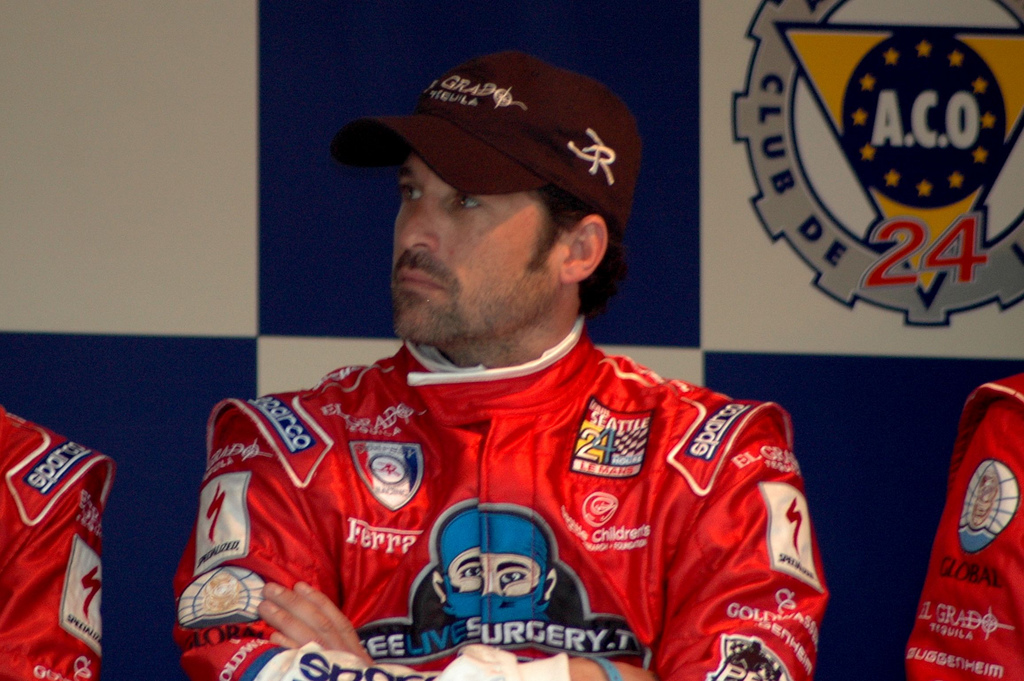 Patrick Dempsey being interviewed at the 2009 24 Hours of Le Mans